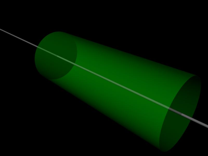 This image shows a cylindrical gaussian surface enclosing a section of an ideal, infinite wire. Image created by poster.